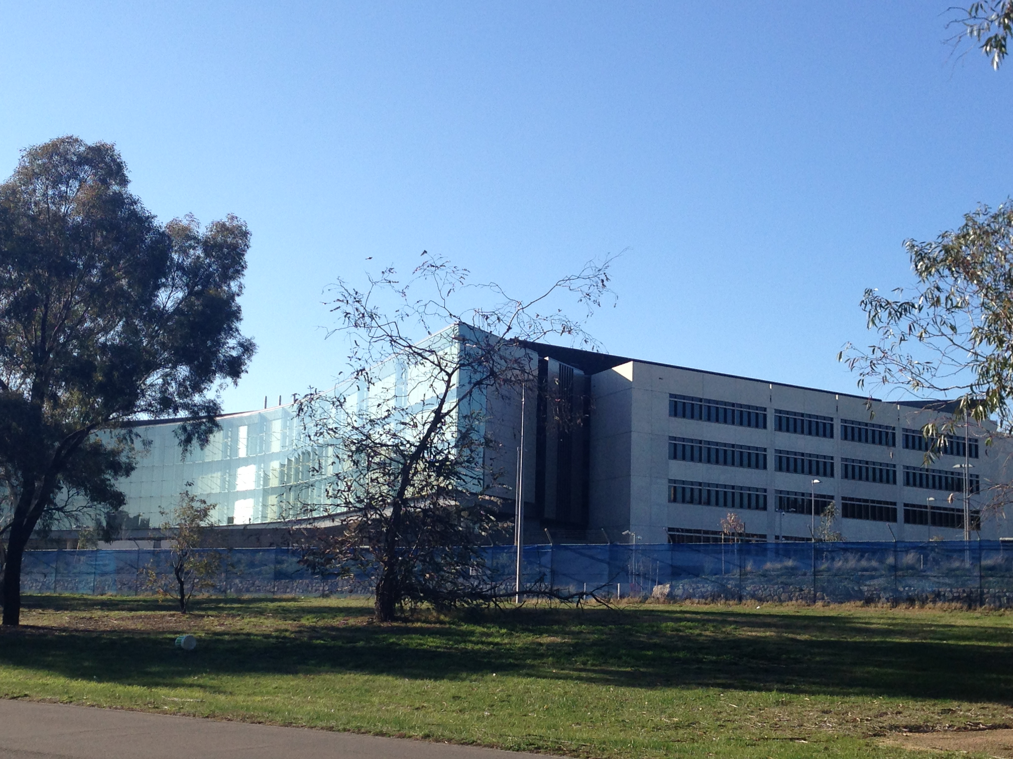 The New Central Office building of the Australian Security Intelligence Organisation (ASIO), Australia's domestic intelligence agency.